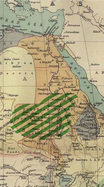 Egypt in 1885, with extent of Mahdi revolt